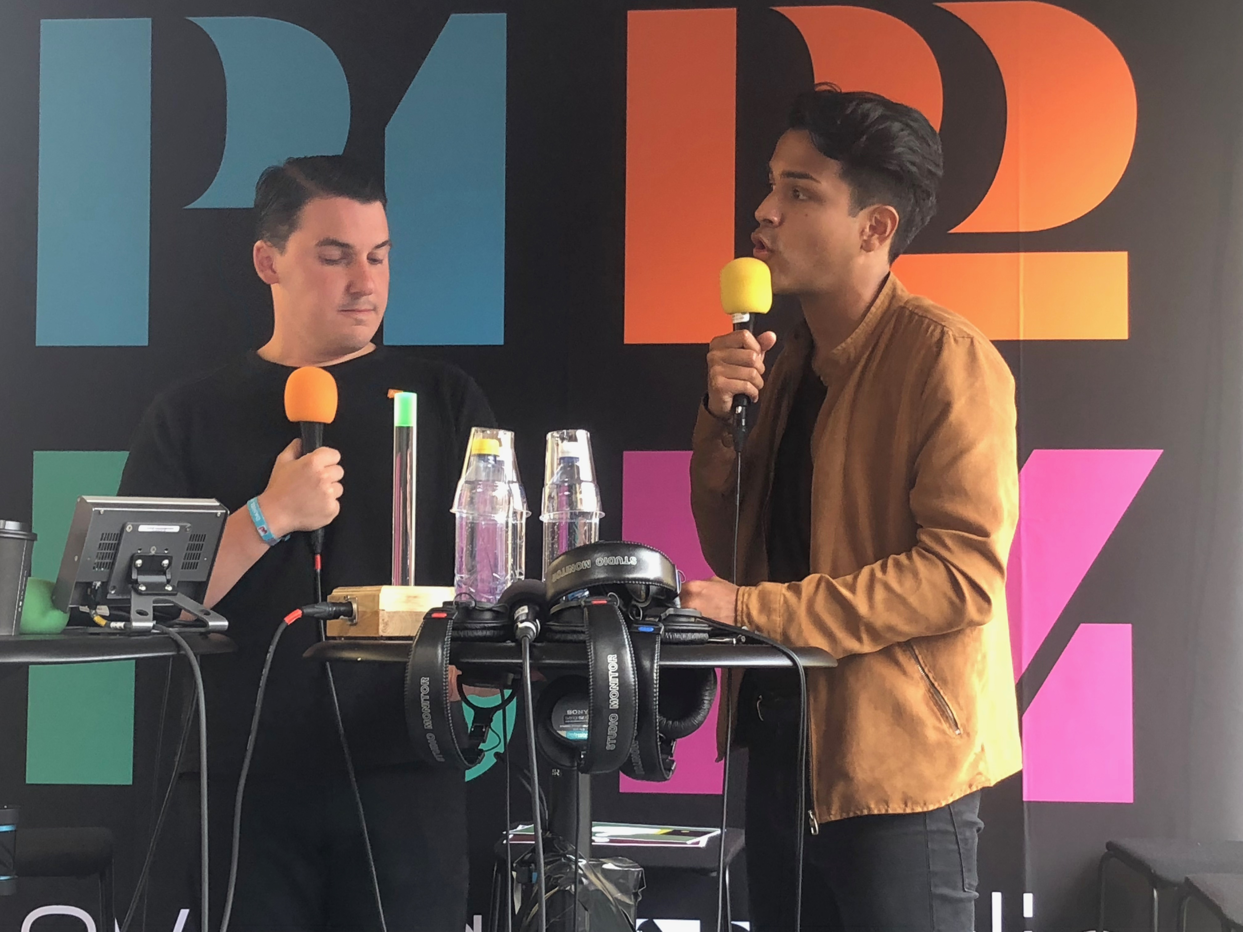 Joar Forssell och Philip Botström intervjuad av SR i Almedalen 2018